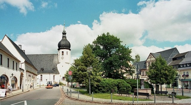 This image shows the church in Olbernhau in the Ore Mountains.